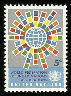 United Nations postage stamp